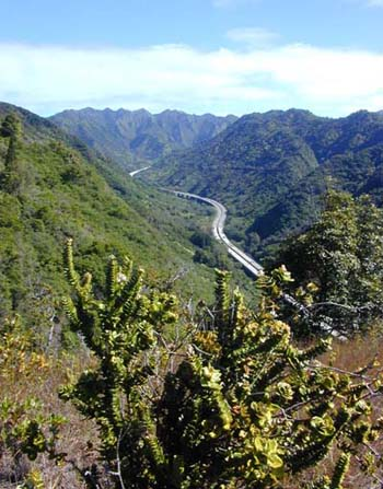 H-3 Interstate on O‘ahu in the Hawaiian Islands as seen from Halawa Heights looking roughly northeast into Halawa Valley and towards the Ko`olau crest. Note plant is foreground: a scrub form of the native ‘ohia lehua. Photographed by Eric Guinther and released under the GNU Free Documentation License.